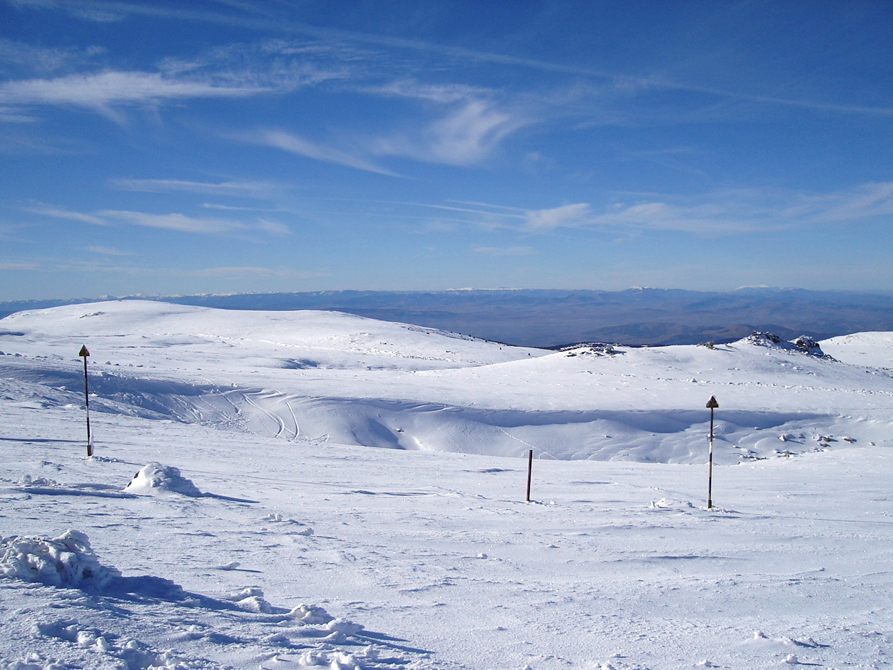 Selimitsa Peak in Vitosha Mountain, Bulgaria. Photograph by Nikolay Rainov published in under Creative Commons license 2.5.